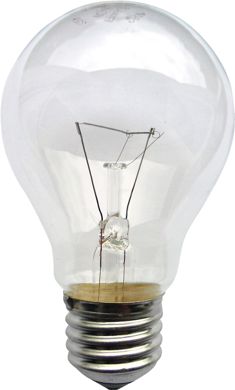 Transparentised version of Image:Gluehlampe 01 KMJ.jpg